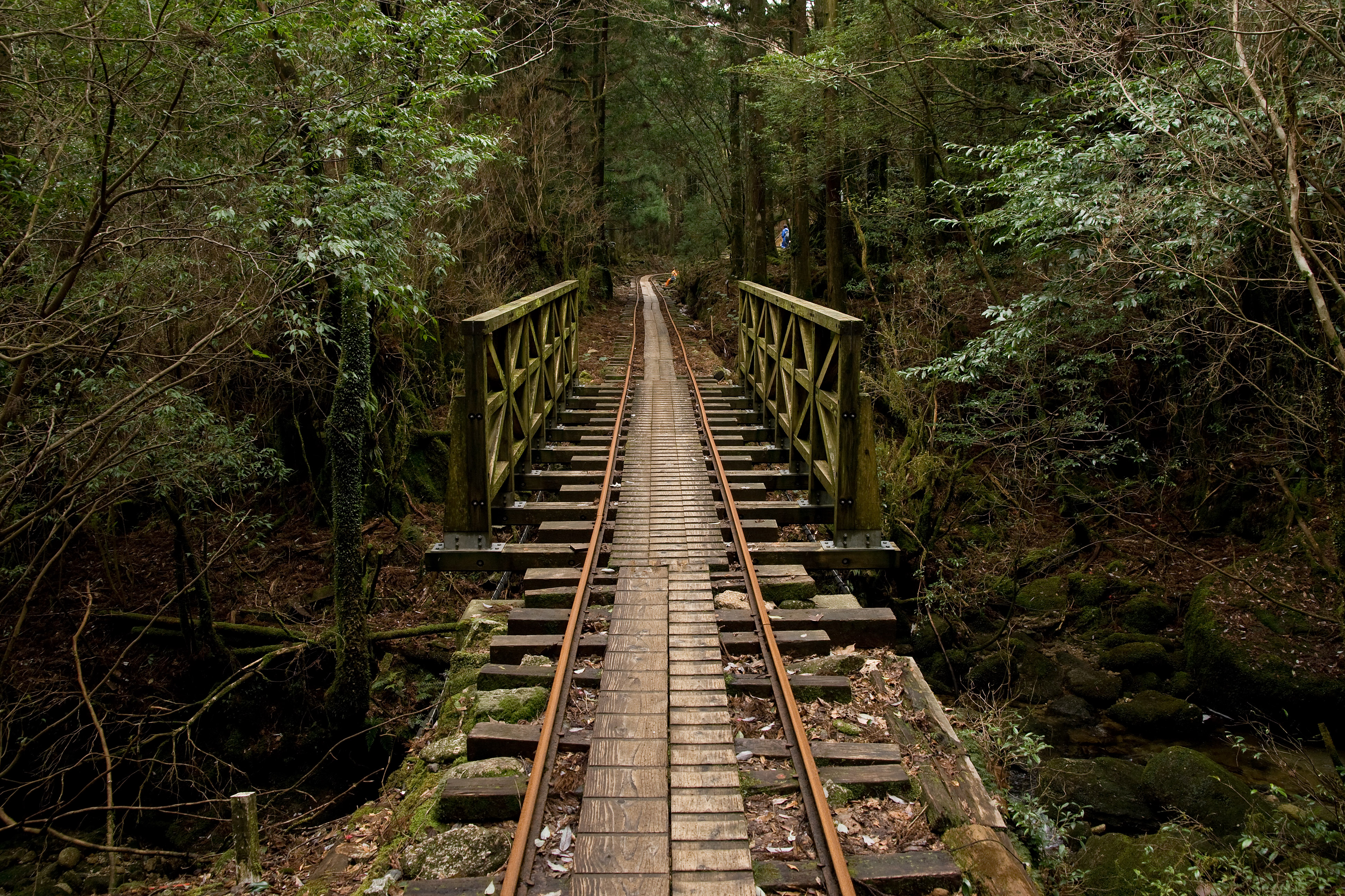 Anbō Forest Railway in Yakushima, Kagoshima Pref., Japan.